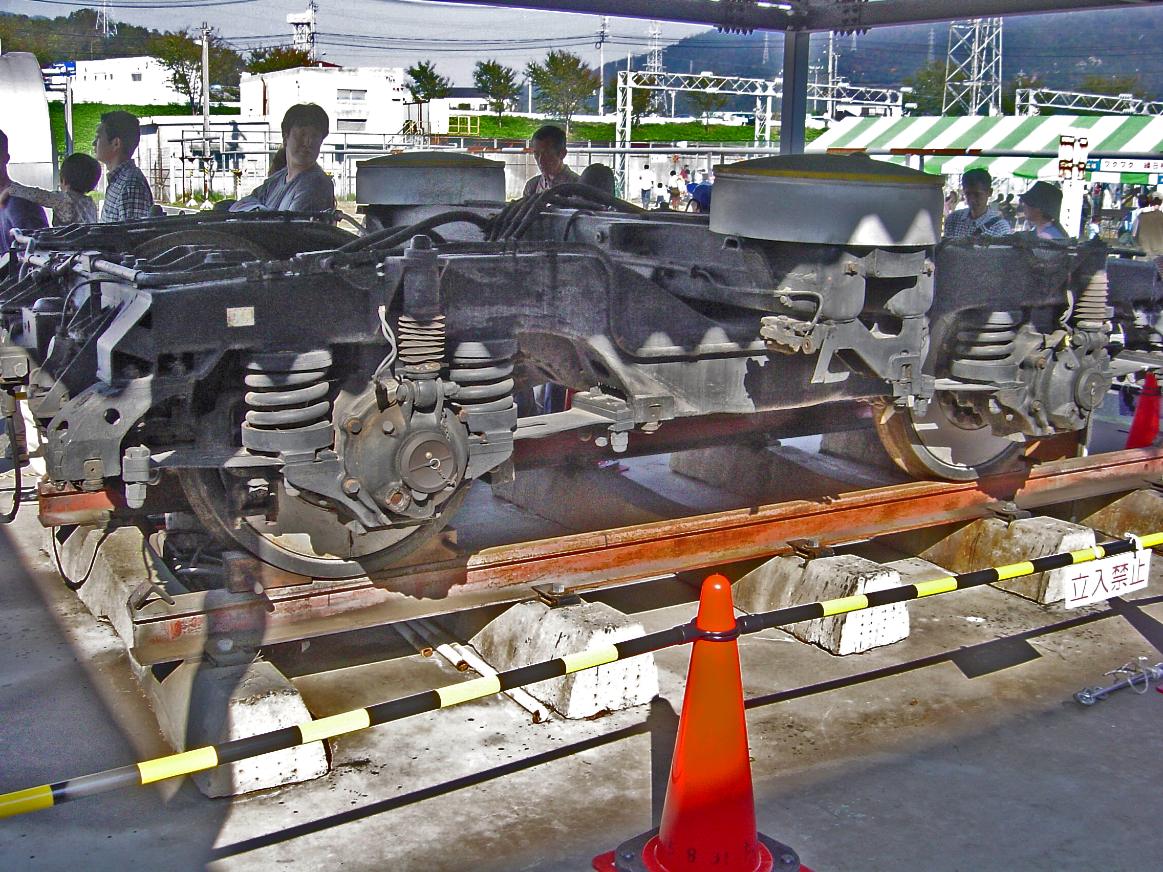 Bogie of Shinkansen 0 series